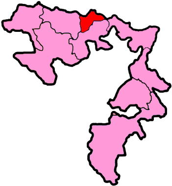 The fourth electoral unit of Republika Srpska (NSRS) shown within Bosnia and Herzegovina.